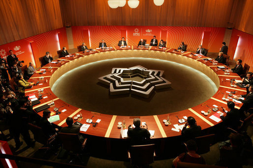 President George W. Bush, left center, joins fellow leaders during the APEC Leaders Retreat Saturday, Sept. 8, 2007, in Sydney, Australia. White House photo by Eric Draper.